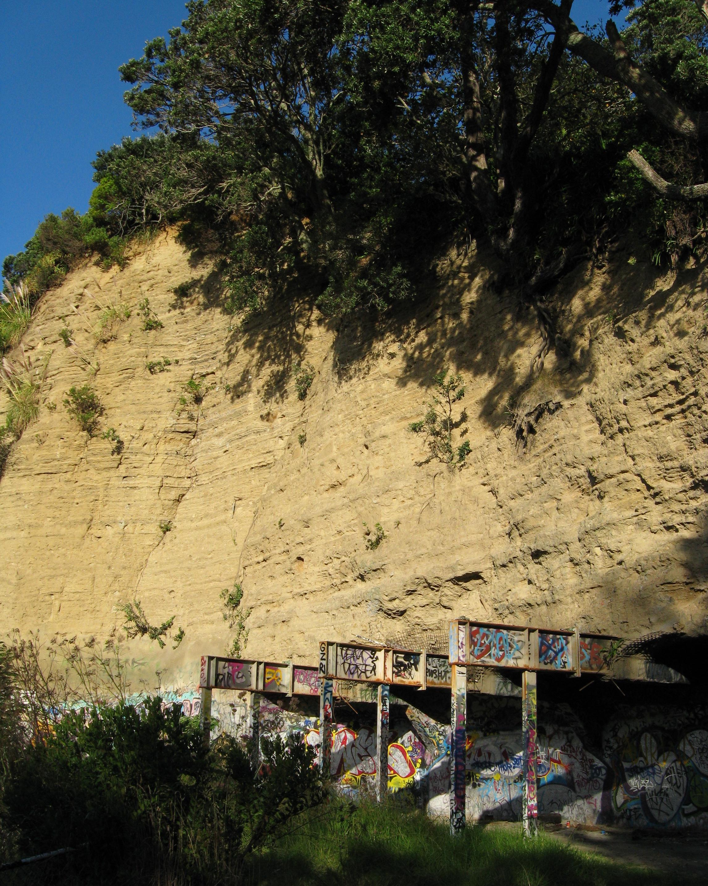 Tuff ring falling away to Gentleman's Bay below in 2008. Private house site (abandoned). East end of cliffs over Glover Park. David Burgess